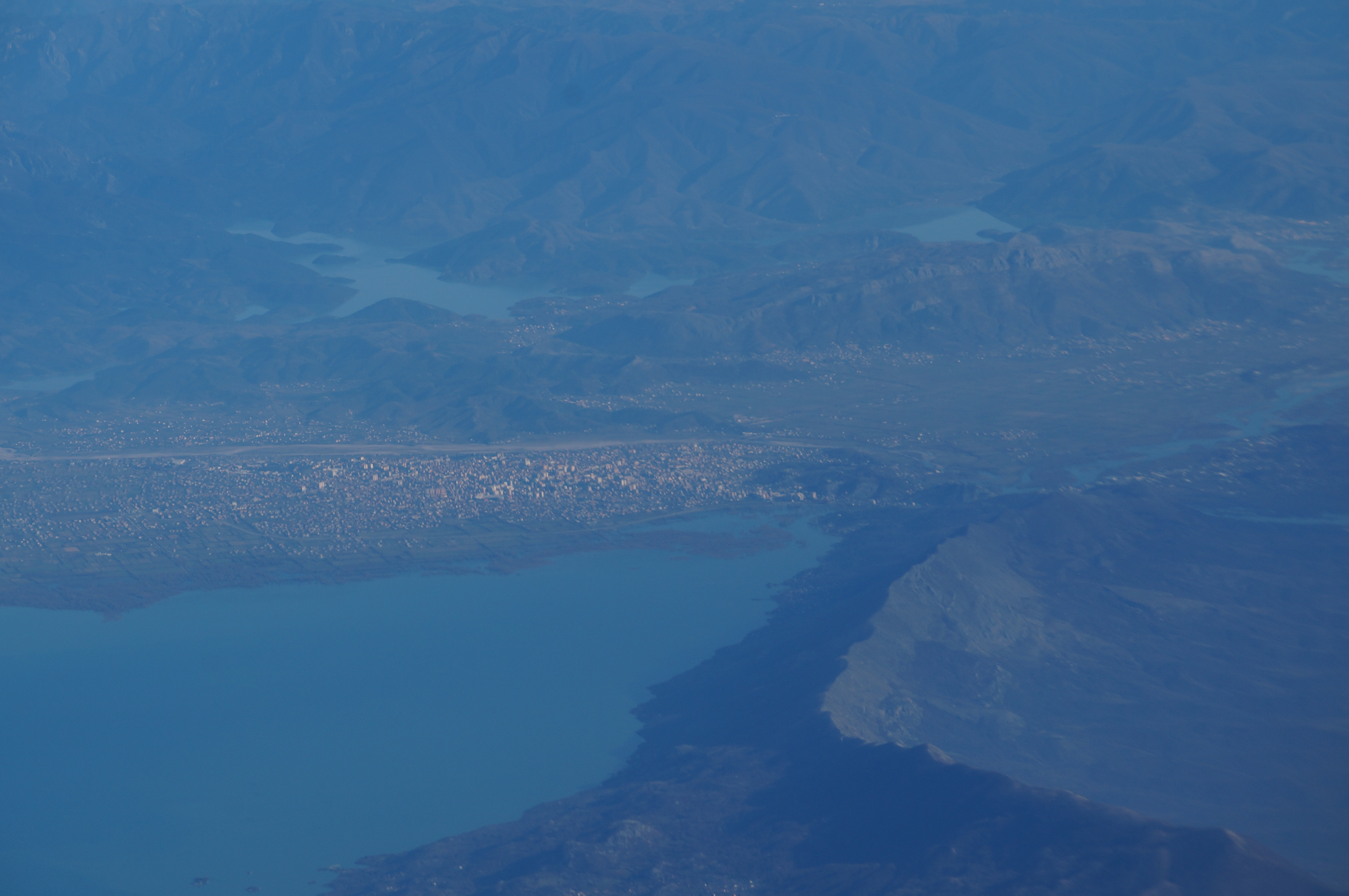 Shkodra, Albania, and surrounding from the air – Lake Shkodra, Rumija-Tarabosh mountain ridge, Lake Vau i Dejës in the background